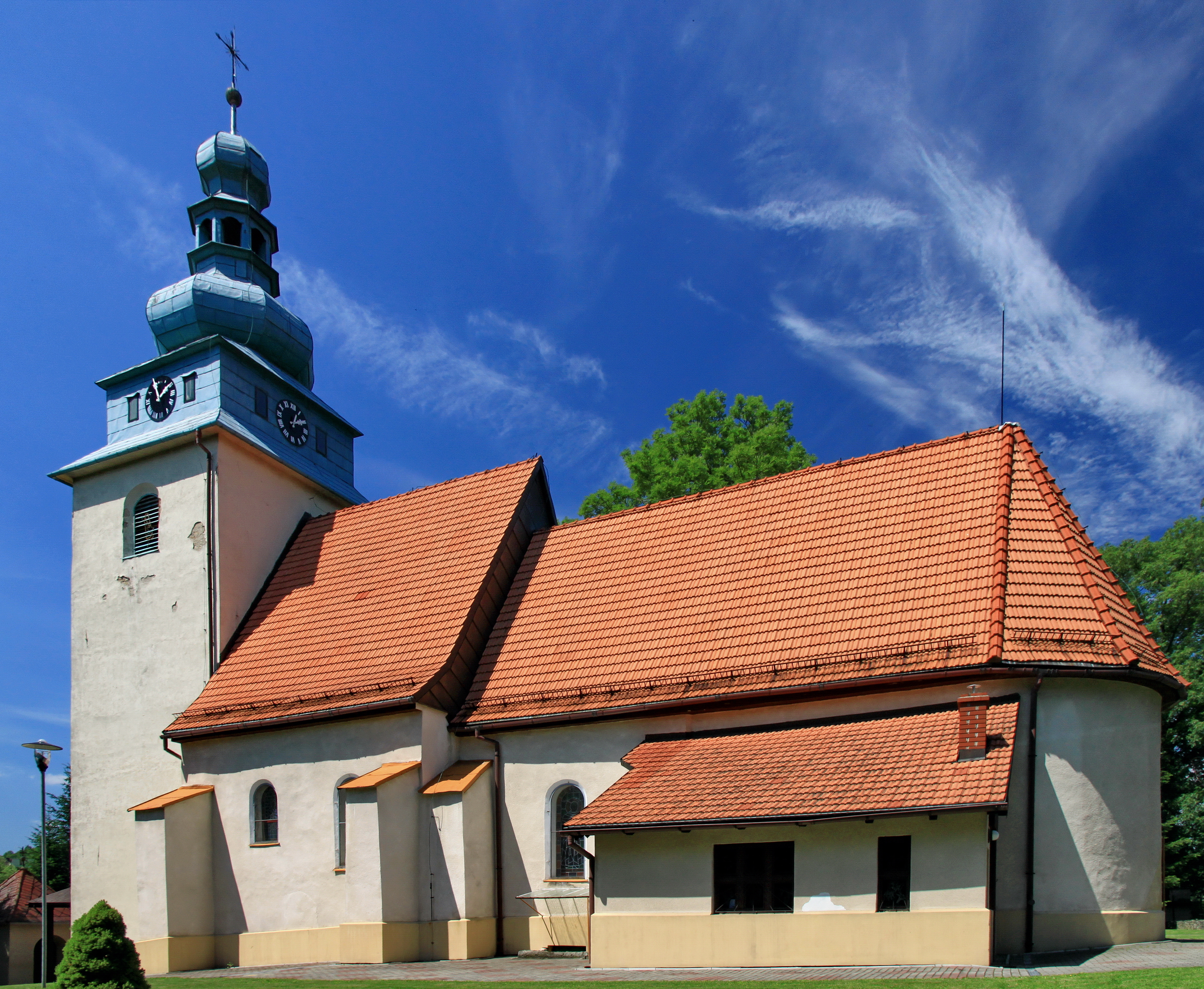 Górki Wielkie, All Saints parish church, build in 15th century, 1662